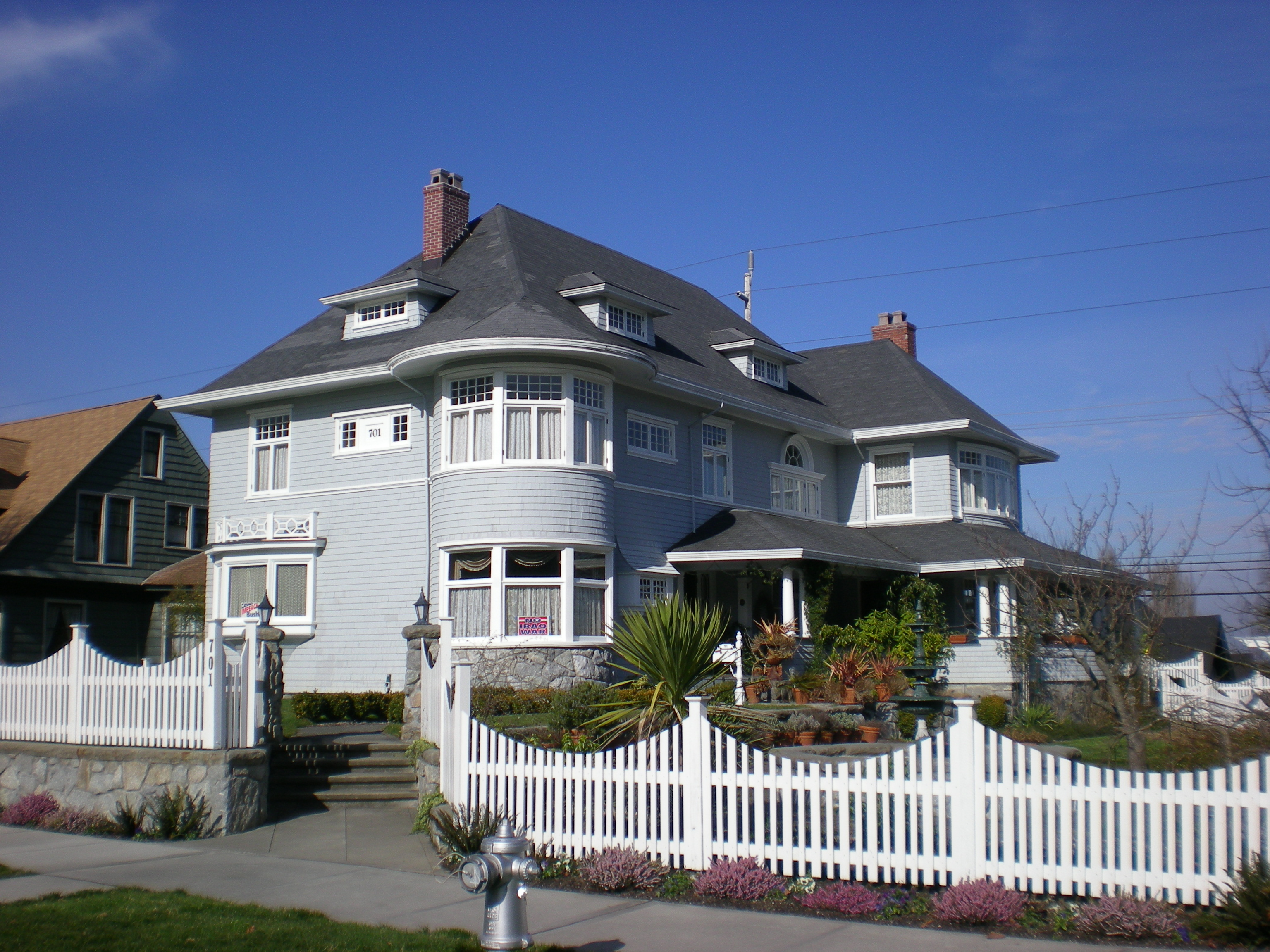 The Henry and Birdella Rhodes house, 10815 Greendale Dr. SW, Tacoma, Washington